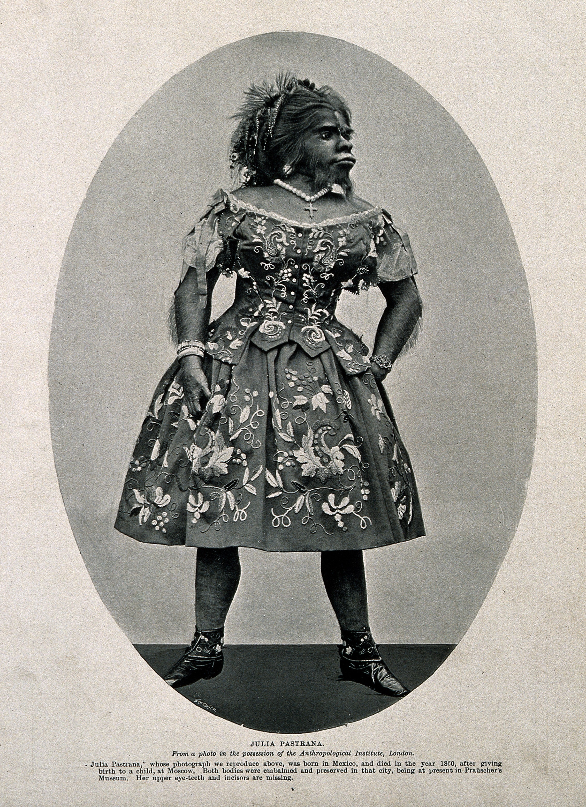 Julia Pastrana, a bearded lady. Reproduction of a photograph by G. Wick. Iconographic Collections Keywords: George Wick; portrait photographs; Julia Pastrana; Hypertrichosis; pastrana, julia, d. 1860